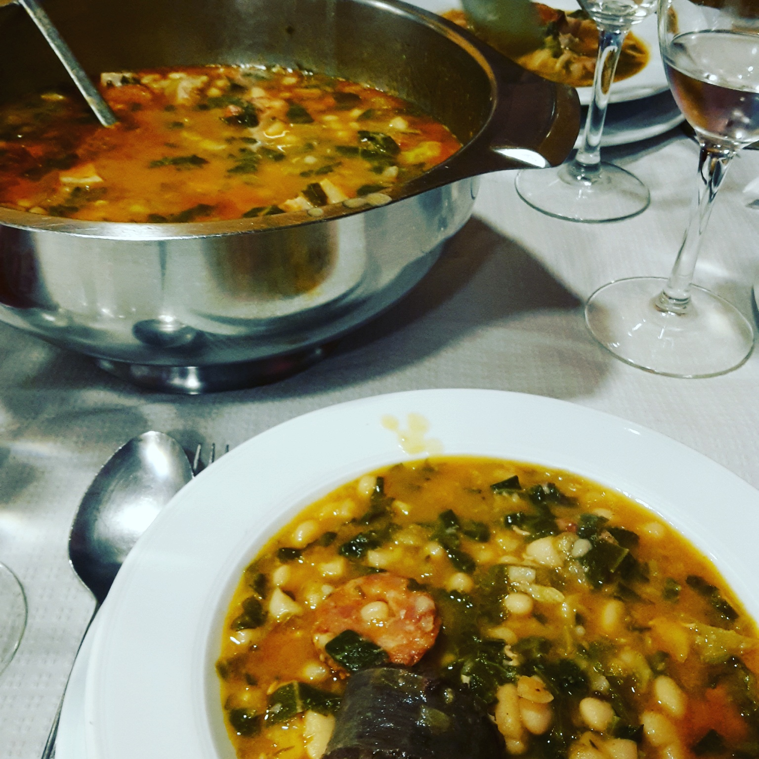 Mountain Stew, a traditional Cantabrian dish (Spain). It's prepared with white haricot beans, collard greens and products from the pig slaughter